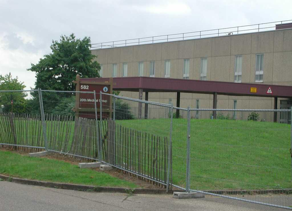 The hospital at Upper Heyford was closed and fenced off in 2001.